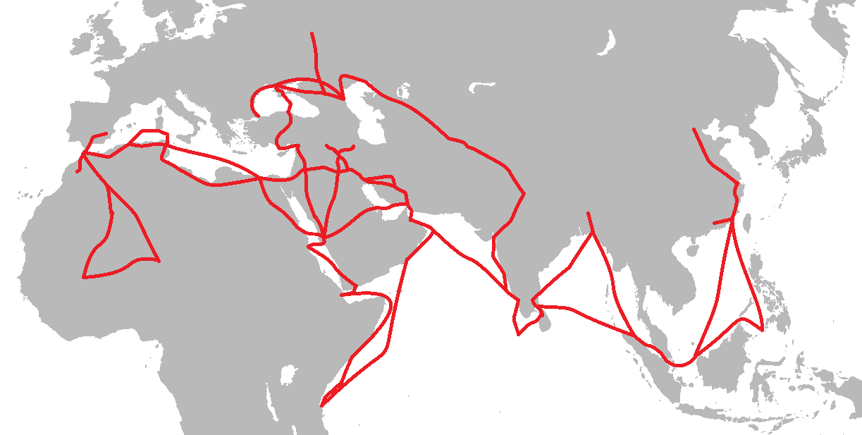 The routes traveled by Ibn Battuta.